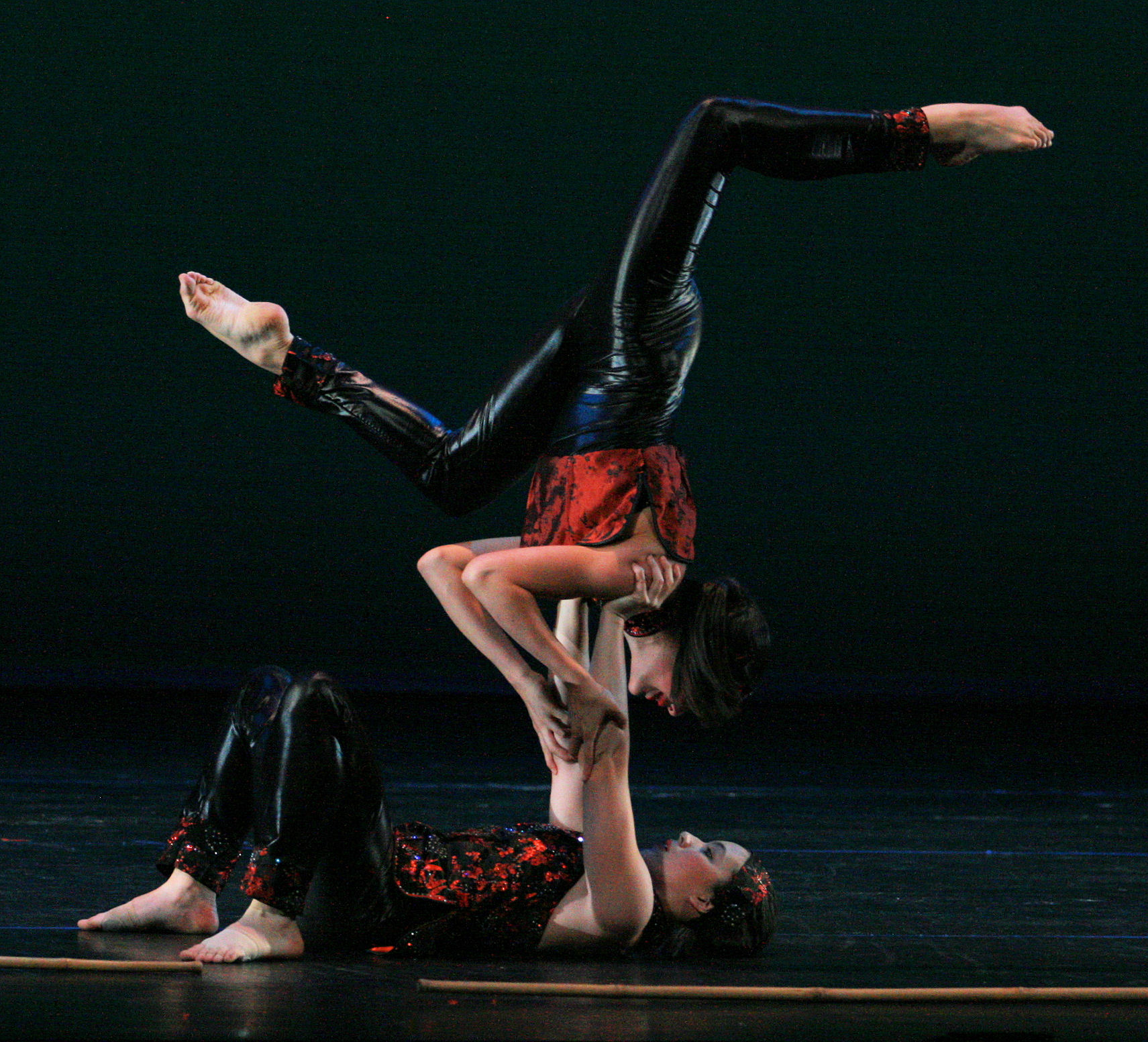 Acro dancers pause in an adagio stag shoulder stand during the course of a dance performance (Daria L inverted at top).